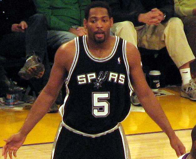 Robert Horry, San Antonio Spurs vs. Los Angeles Lakers January 28, 2007